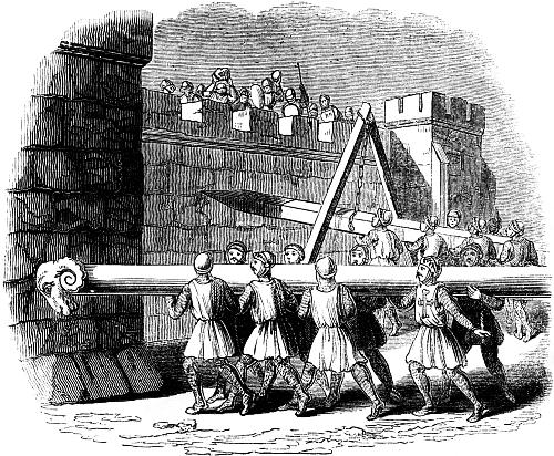 Attack on the Walls of a besieged Tower (shows a battering ram).